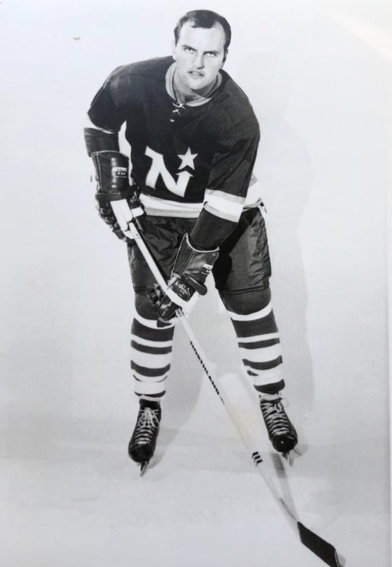 North Stars Photo